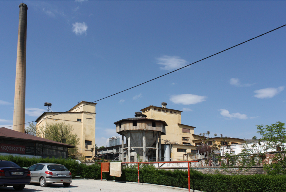 Kostenets Paper Mills, Bulgaria